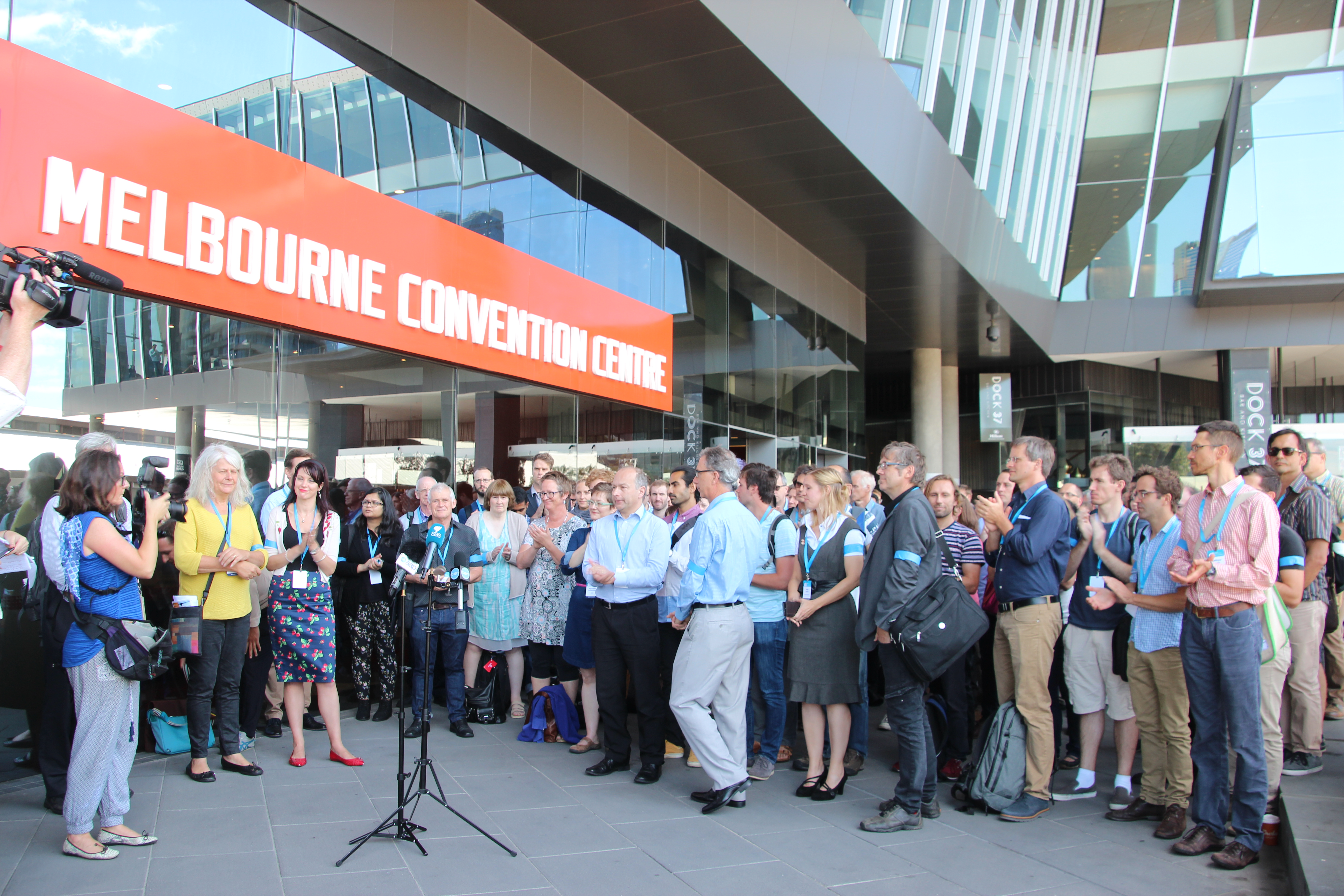 Over 100 climate scientists attending the Australian Meteorological and Oceanographic Society (AMOS) climate science conference in Melbourne, including international visitors, staged a lunch time protest expressing disapproval of the restructure and cuts to CSIRO staff and climate research programs announced by CSIRO CEO Dr Larry Marshall. They wore blue armbands as a symbol of solidarity.